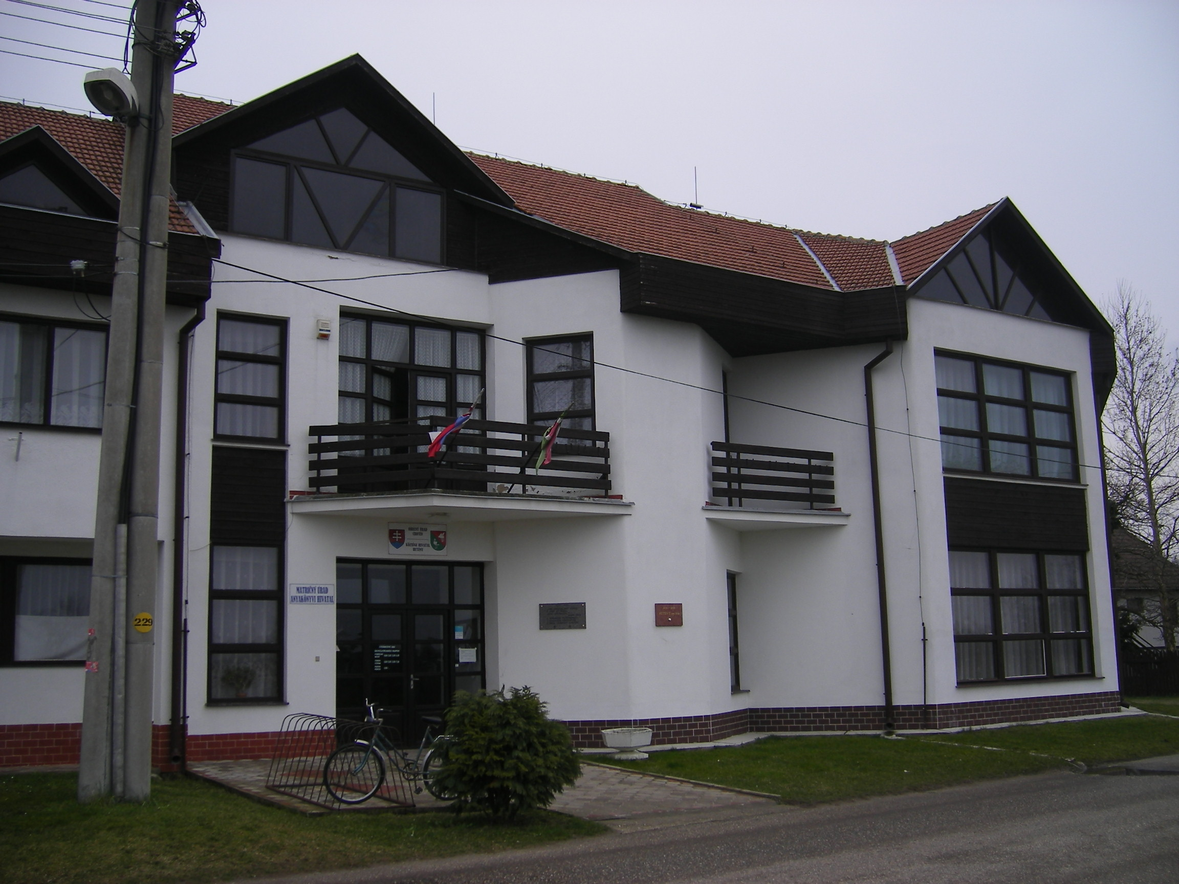 Chotín, municipal building.